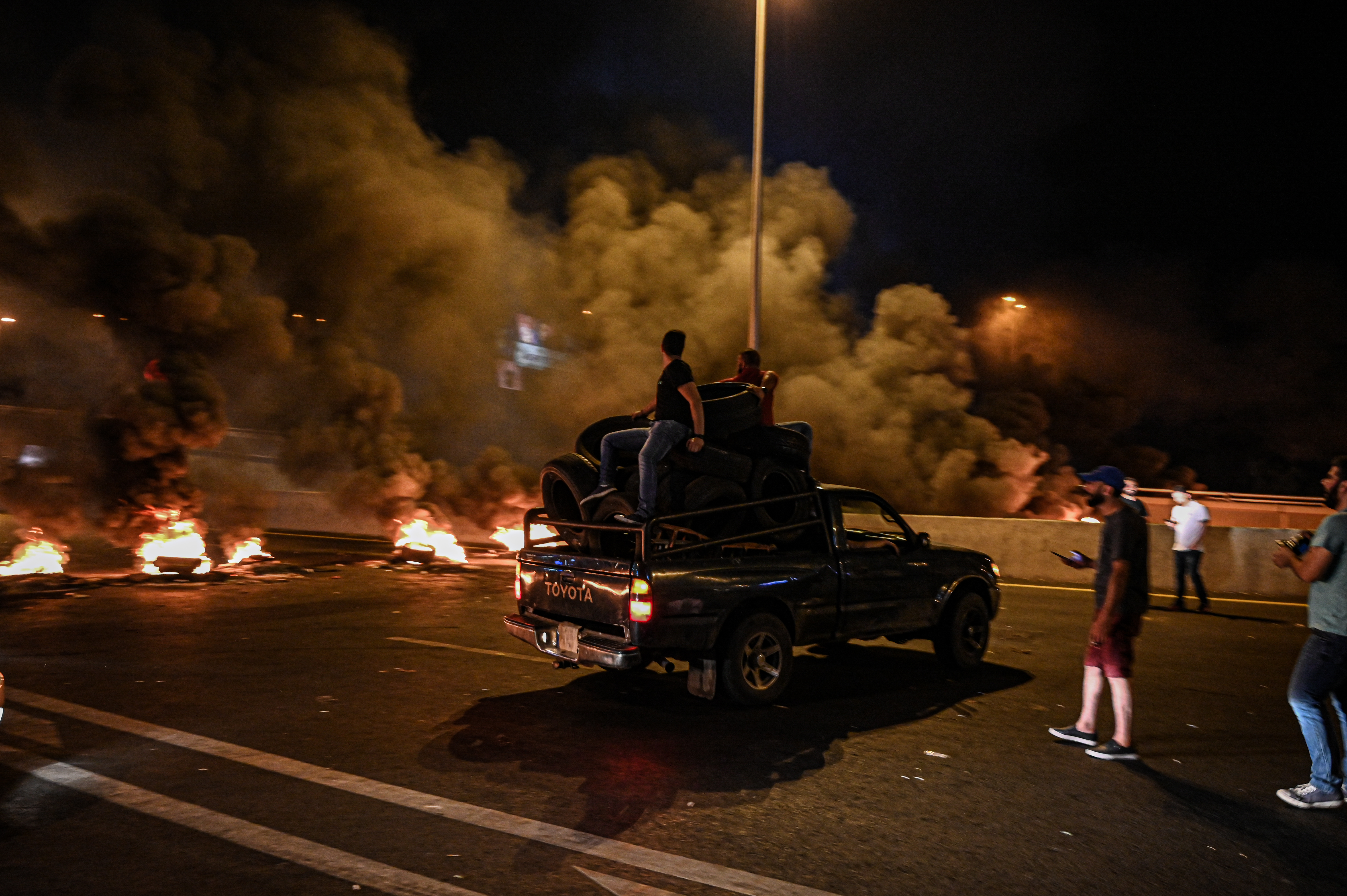 2019 Lebanese protests - Antelias 2